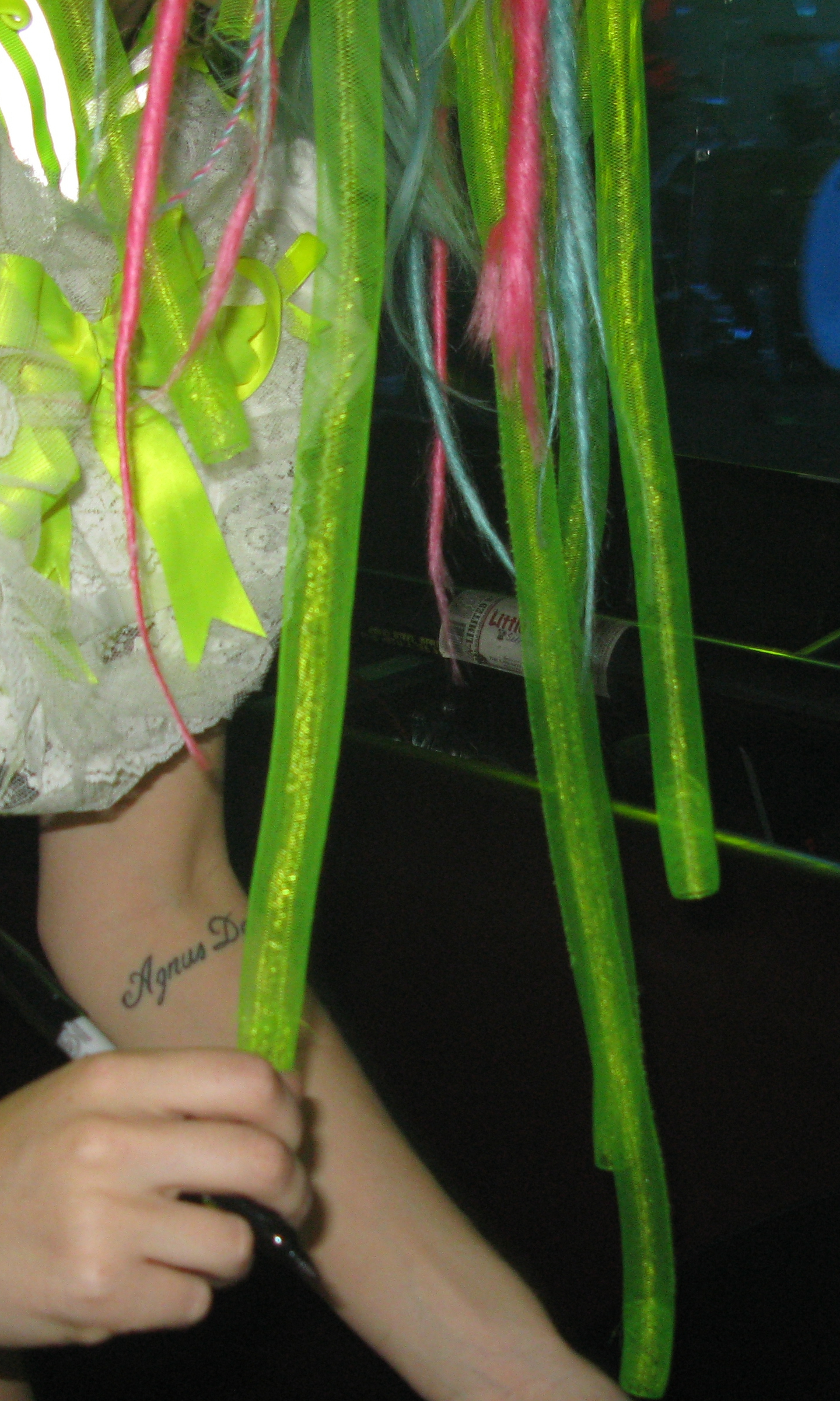 Kerli about to sign a fan's T-shirt at the 2011 South by Southwest at PureVolume House.Kerli's left hand has an 'Agnus Dei' tattoo inscription.